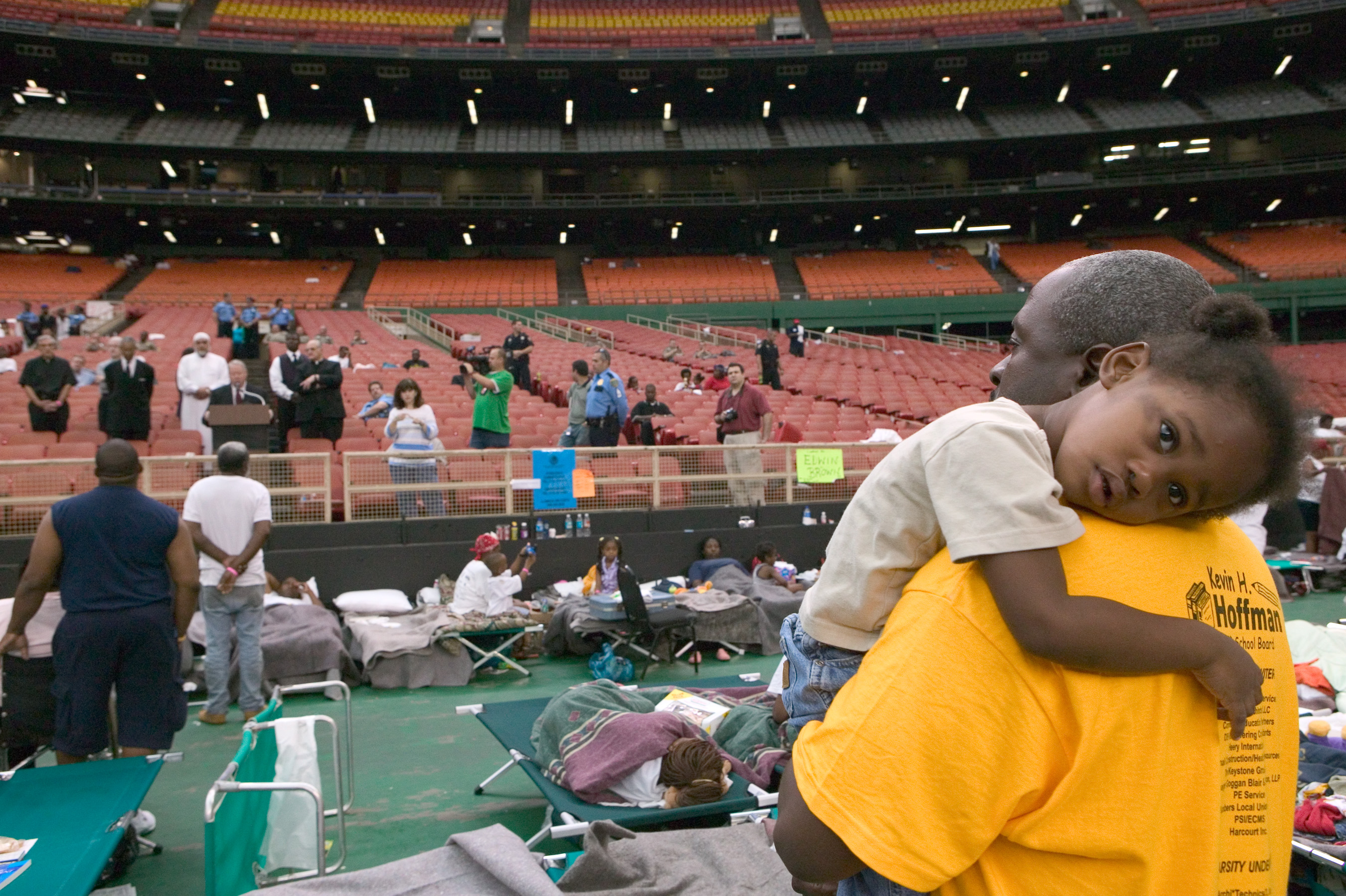 Houston,TX.,9/4/2005--Alezhanjla and Gary Mutin, Hurricane Katrina evacuees, listen to Sunday services given by Rev. Bill Lawson, Sheik Mustafa Mahmoud, Archbishop Joseph A. Fiorenz (left to right),and Rabi David Rosen (at podium) in the Red Cross shelter in the Houston Astrodome. FEMA photo/Andrea Booher